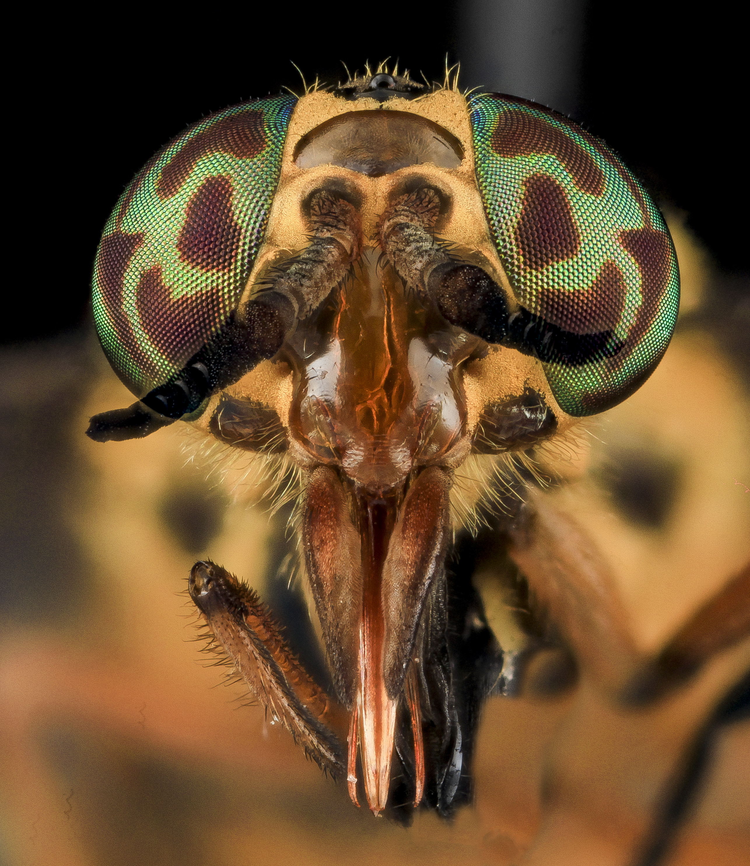 Another unknown Chrysops species from Maryland, see assocaited back shot for possible id, collected from the resulting cloud of flies after a run through Patuxent Wildlife Research Center, Maryland